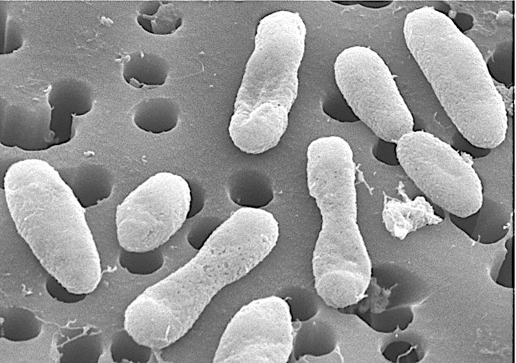 Scanning electron micrograph of strain HIMB11. For scale, the membrane pore size is 0.2 μm in diameter. Strain HIMB11 is a planktonic marine bacterium isolated from coastal seawater in Kaneohe Bay, Oahu, Hawaii belonging to the ubiquitous and versatile Roseobacter clade of the alphaproteobacterial family Rhodobacteraceae. The strain is the first cultivated representative of a unique lineage within the Roseobacter clade and possesses an unusually small genome.